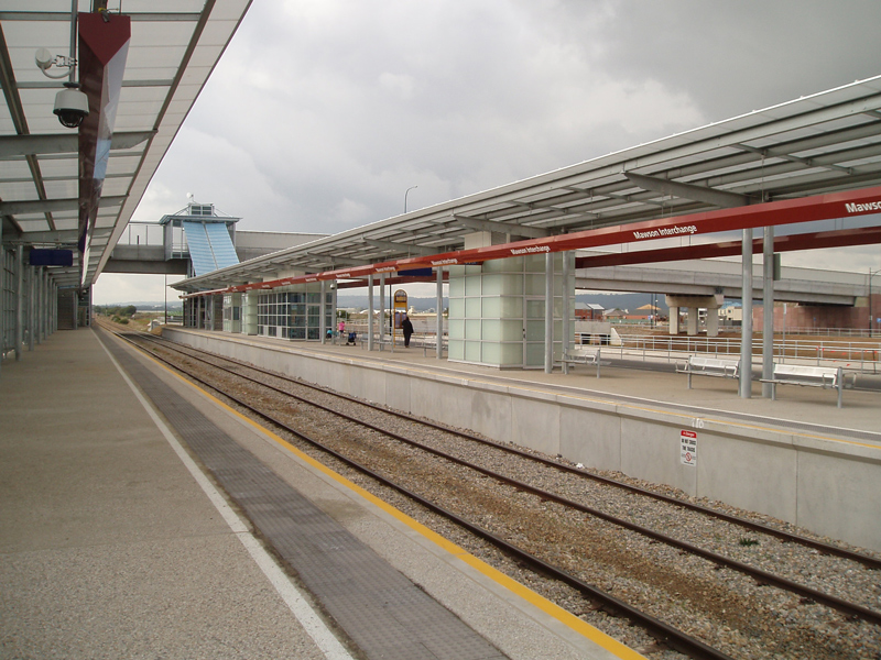 Mawson bus/rail interchange looking north.